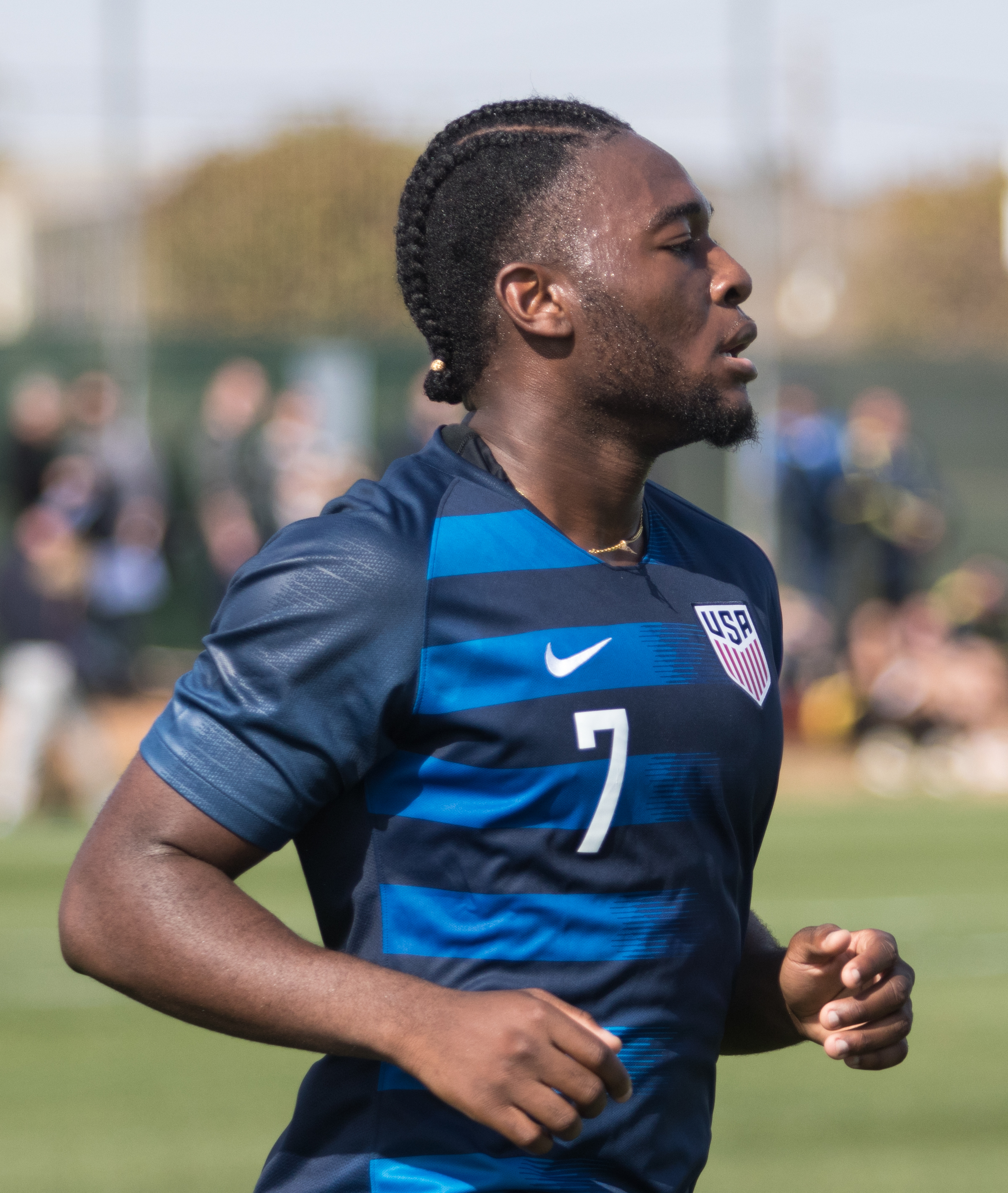 USA U20 v France U20, 22 March 2019